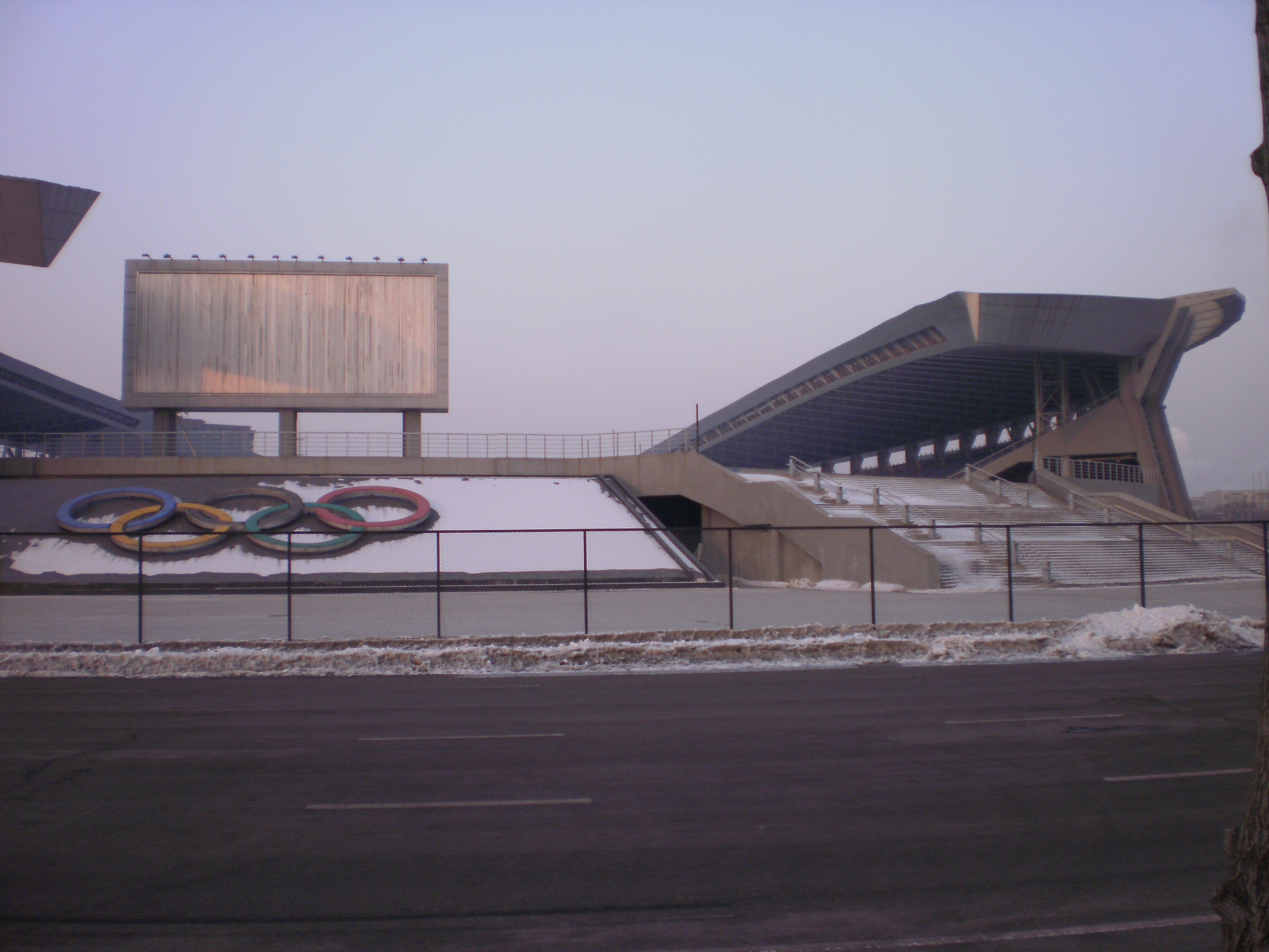 Tiexi Stadium, Shenyang, Liaoning, PRC